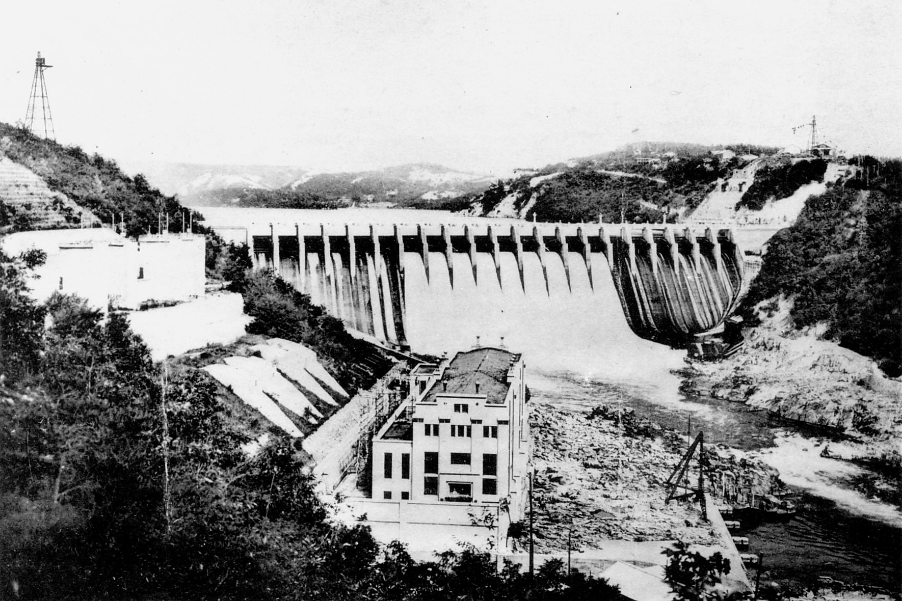 Ōi Dam and Ōi Power Station.